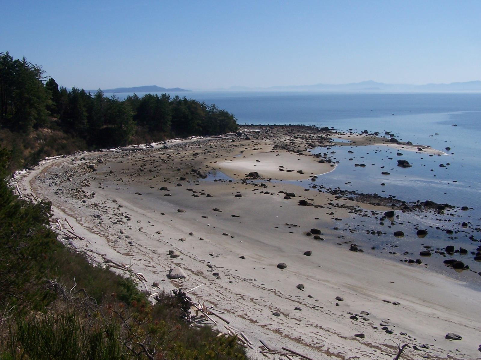 Savary Island. part of the sandy beach on the island's south shore, Powell River